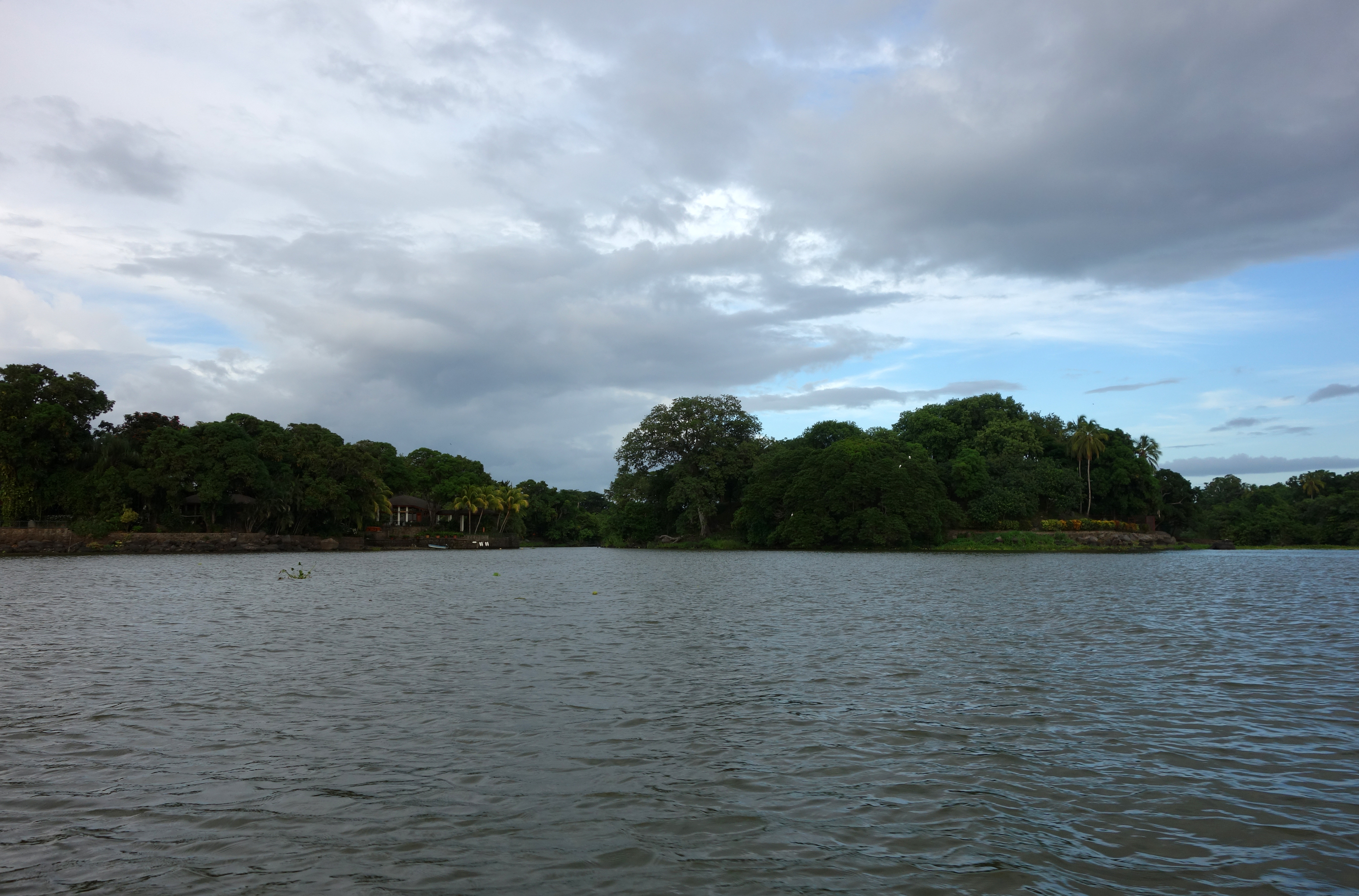 Some of the islets of Granada, Nicaragua